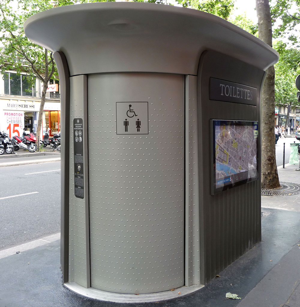 Sanisette self-cleaning street toilet